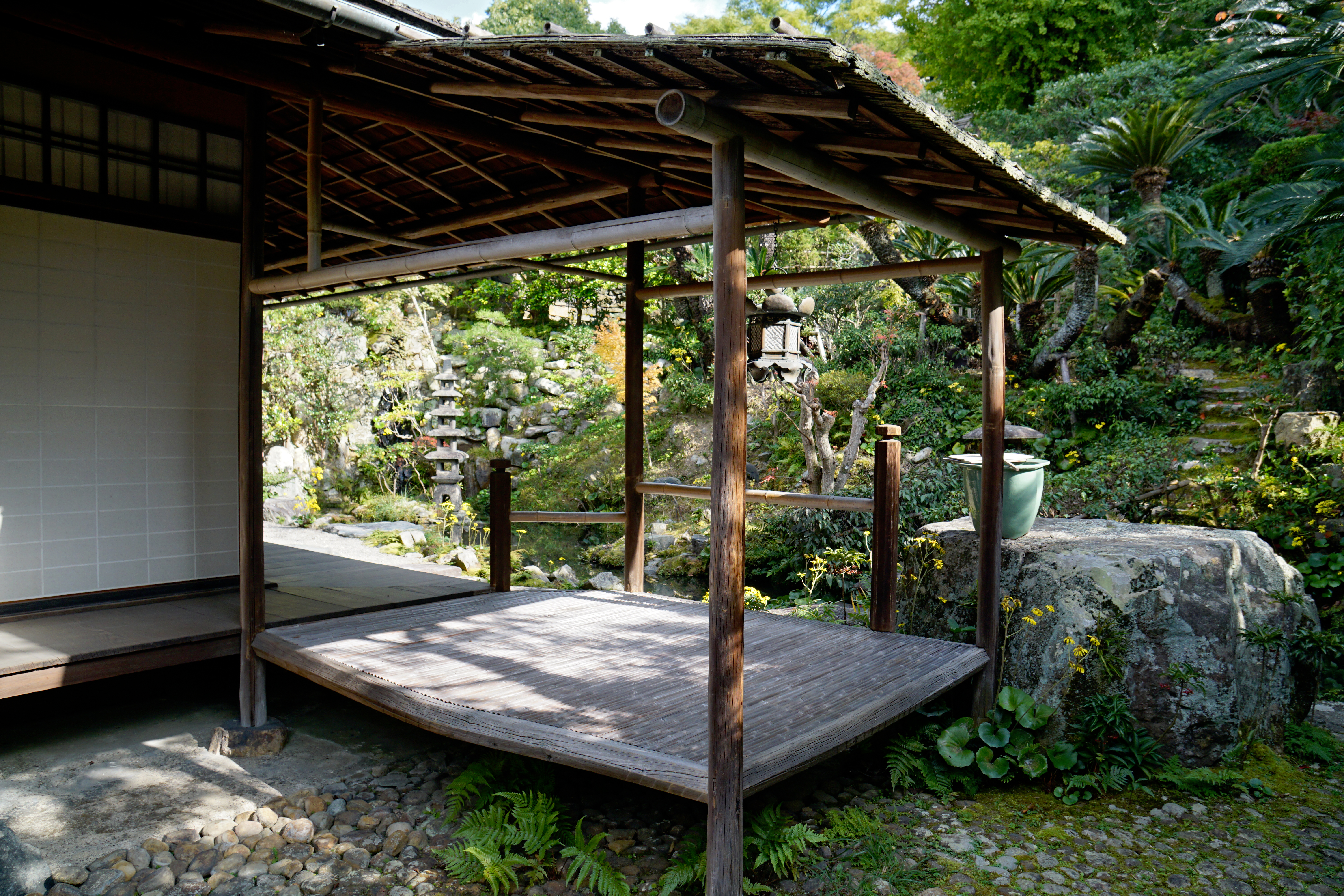 Tabuchi Garden is Japan's "Places of Scenic Beauty" in Akō, Hyogo prefecture, Japan.